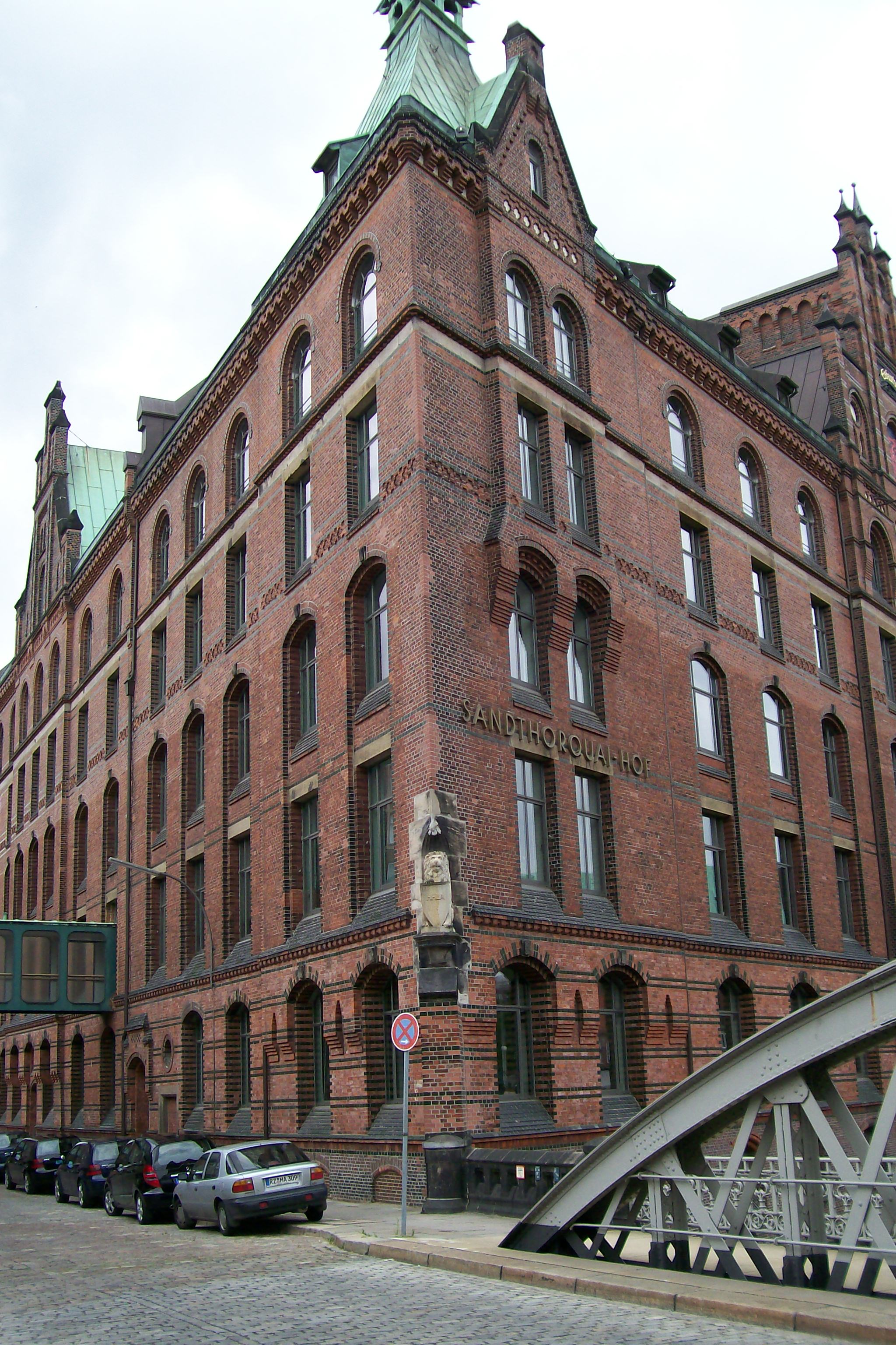 Sandthorquaihof/Sandthorquai-Hof (Speicher Block H) is a brick building in Pickhuben/Brook street, island Speicherstadt in Elbe river, Hamburg, Germany. The building is seat of "dreiviertel verlag" publishing the German magazin "mare"